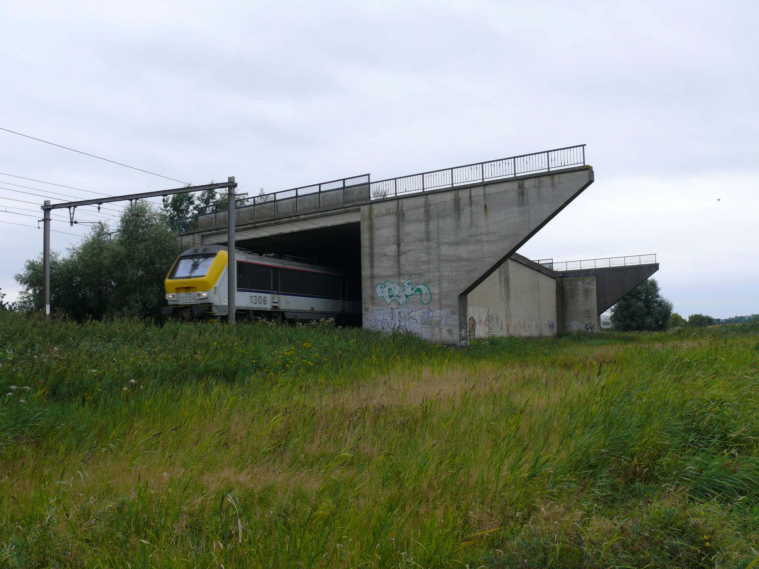 Varsenare, Belgium. Unused motorway bridge over the Ostend-Bruges railtrack. Part of the never built section of the A17 motorway which would lead via the west side of Bruges. Locomotive #1306.This was one of the 2 unused moterway bridges.Both bridges are removed in 2012